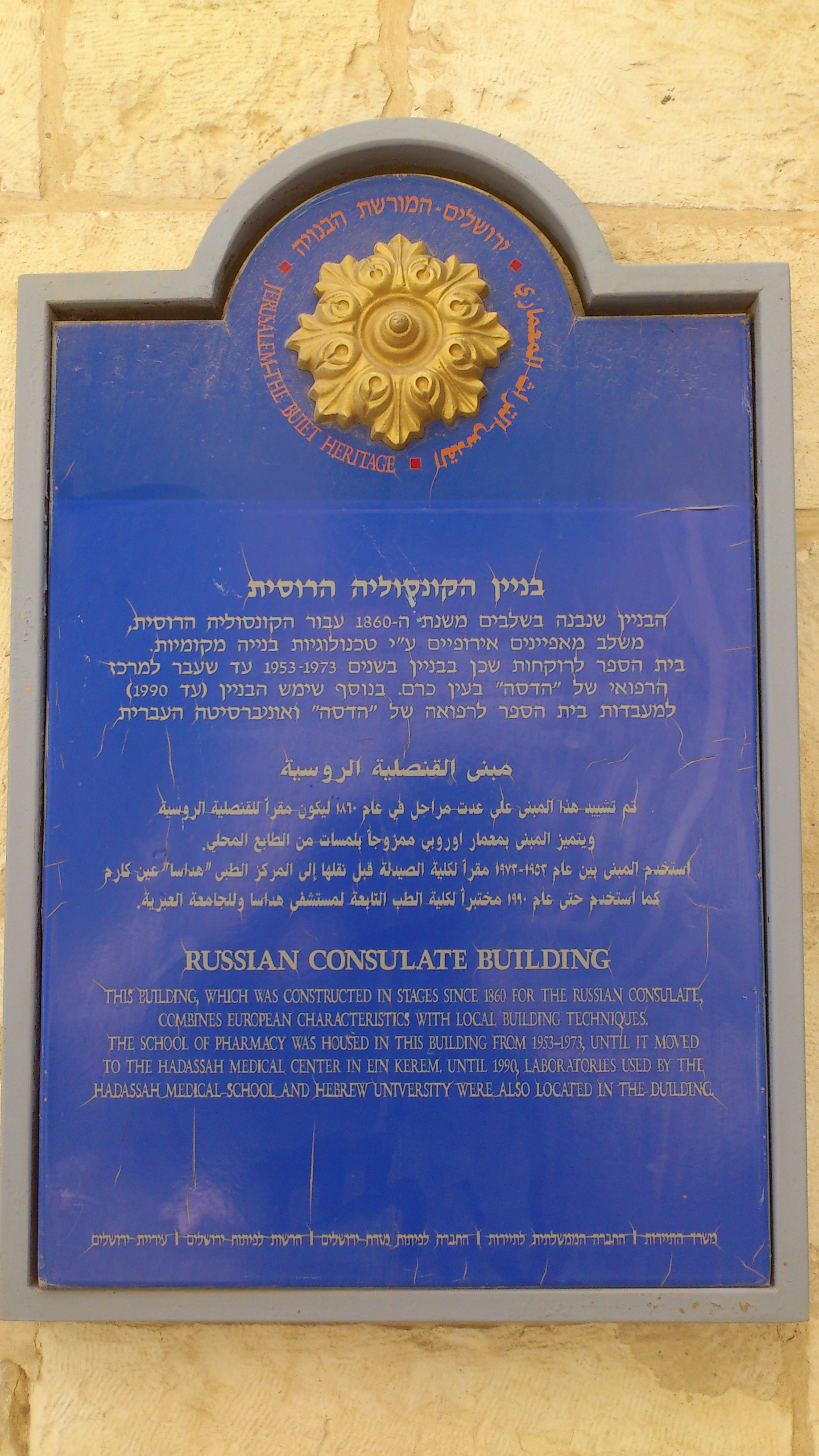 Russian Compound